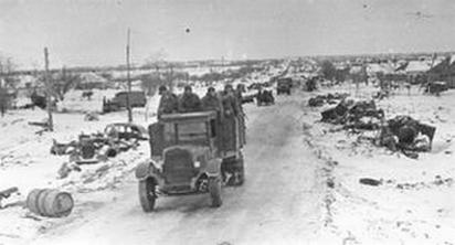 Truck with Red Army soldiers passing through a street in recently liberated Nikopol